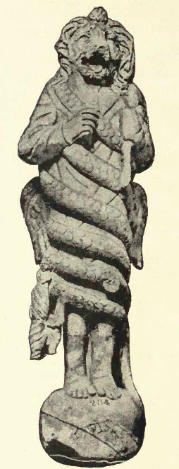 Mithraic Kronos of Florence. Leontocephaline of Mithraic Mysteries or Mithraism.